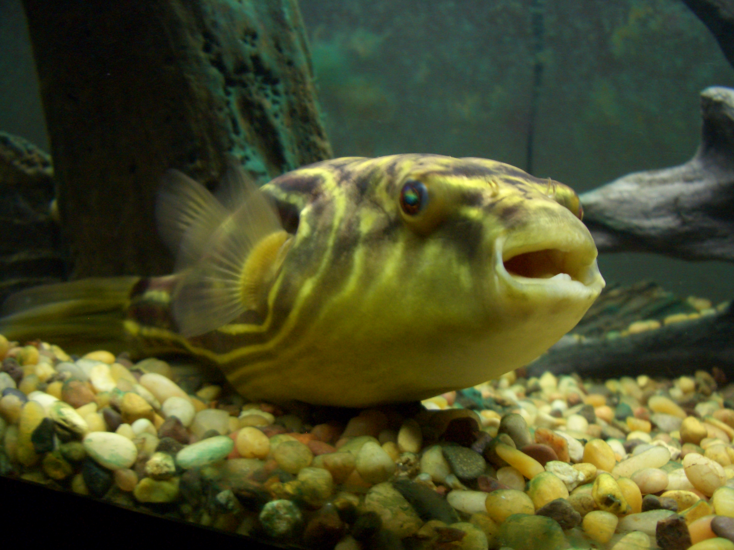 13 inch fahaka puffer fish.